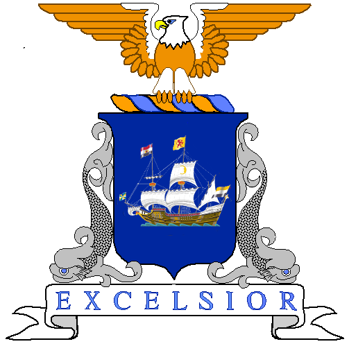 Logo of the New York State Naval Militia